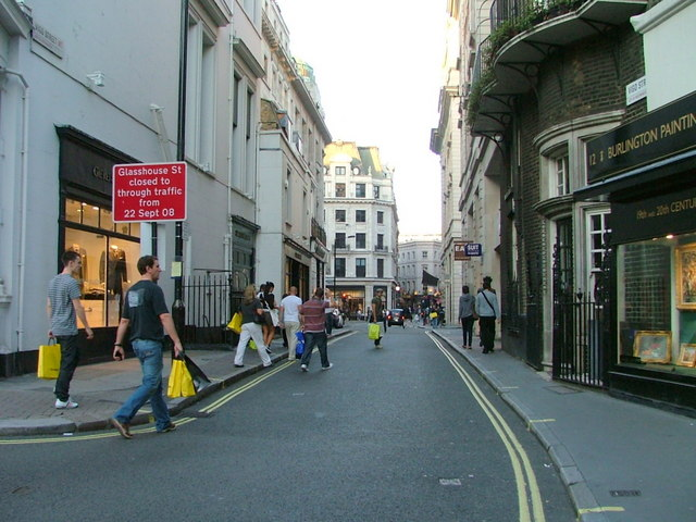 Vigo Street W1 From Burlington Gardens and looking towards Regent Street.